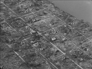 [americans Shelling Japanese Garrison at Myitkyina] [allocated] Aerial shots of the damage done to Myitkyina, Burma, by American forces in the area who were shelling the Japanese garrison; buildings are badly damaged and some are still burning.